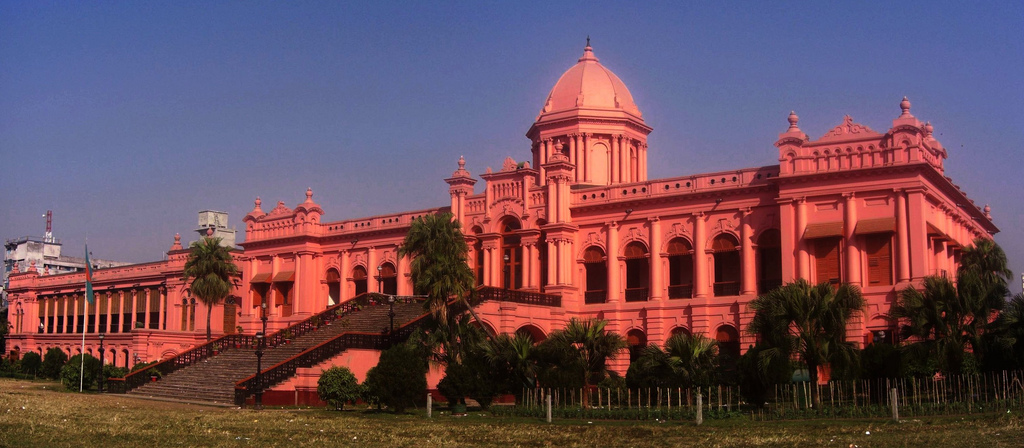 Built by Khwaja Abdul Ghani in 1872 and named after his son Khwaja Ahsanullah, the Nawab of Dhaka. Post independence it gradually fell into disrepair. It was only in 1985 that the place was acquired and renovated by the Government of Bangladesh and is now a museum. Made some perspective and color correction to the original photo. The original was stitched together from two separate photos. Taken on my Dec 2007 visit to Dhaka, Bangladesh.